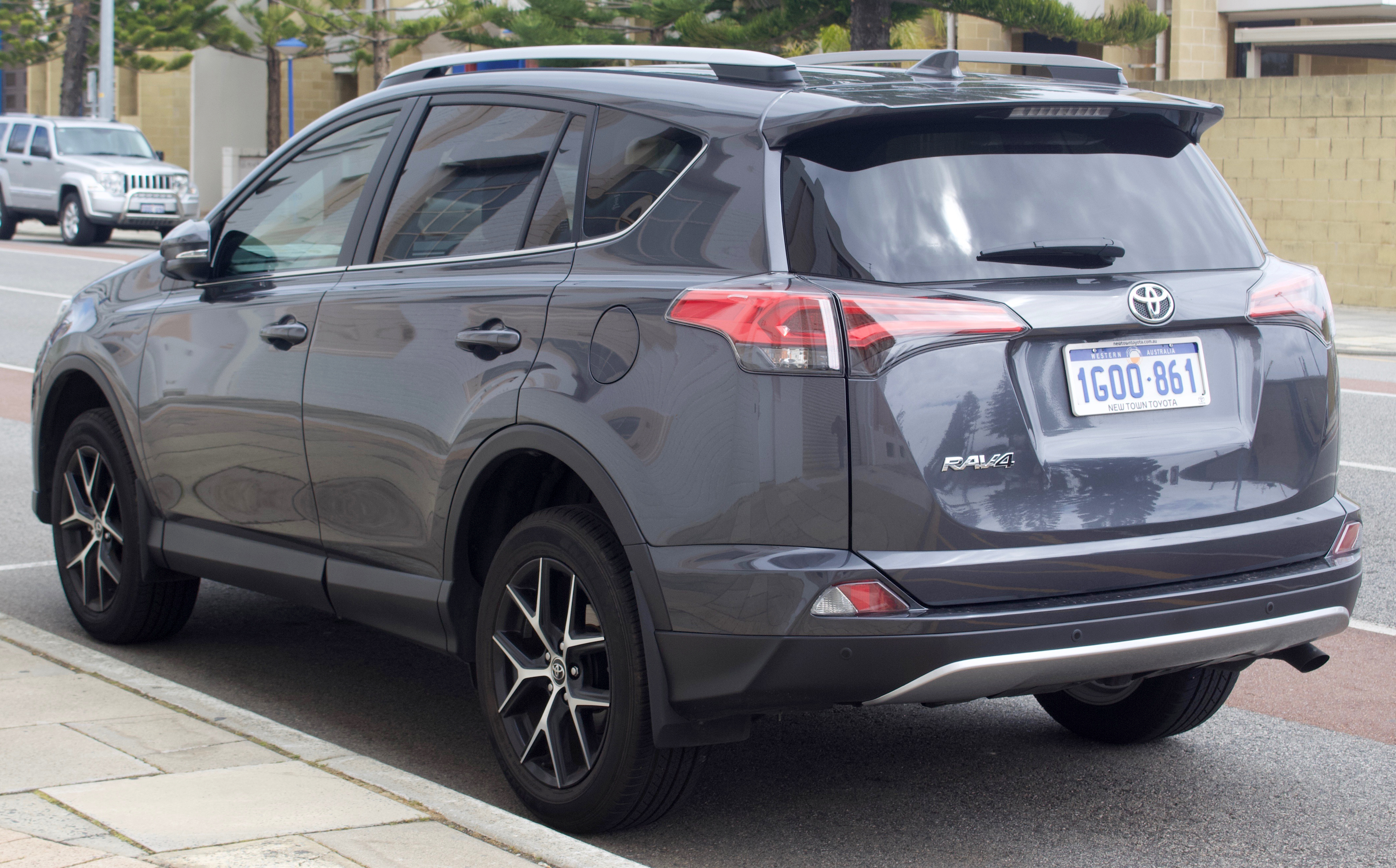 2018 Toyota RAV4 (ZSA42R) GXL 2WD wagon. Photographed in Fremantle, Western Australia, Australia.